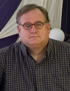 Architect Eric R Kuhne, seated in his office in Clerkenwell, London, 2007. On the wall are the clocks that he designed for Bluewater's town square and Darling Park's Star Court.